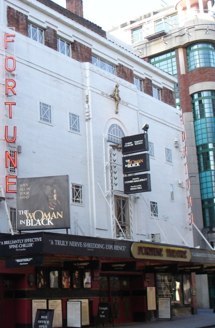 Photo of a building; the Fortune Theatre, Westminster, London, U.K.